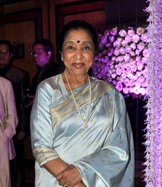 Asha Bhosle at Sunidhi Chauhan's wedding reception at the hotel Taj Lands End.